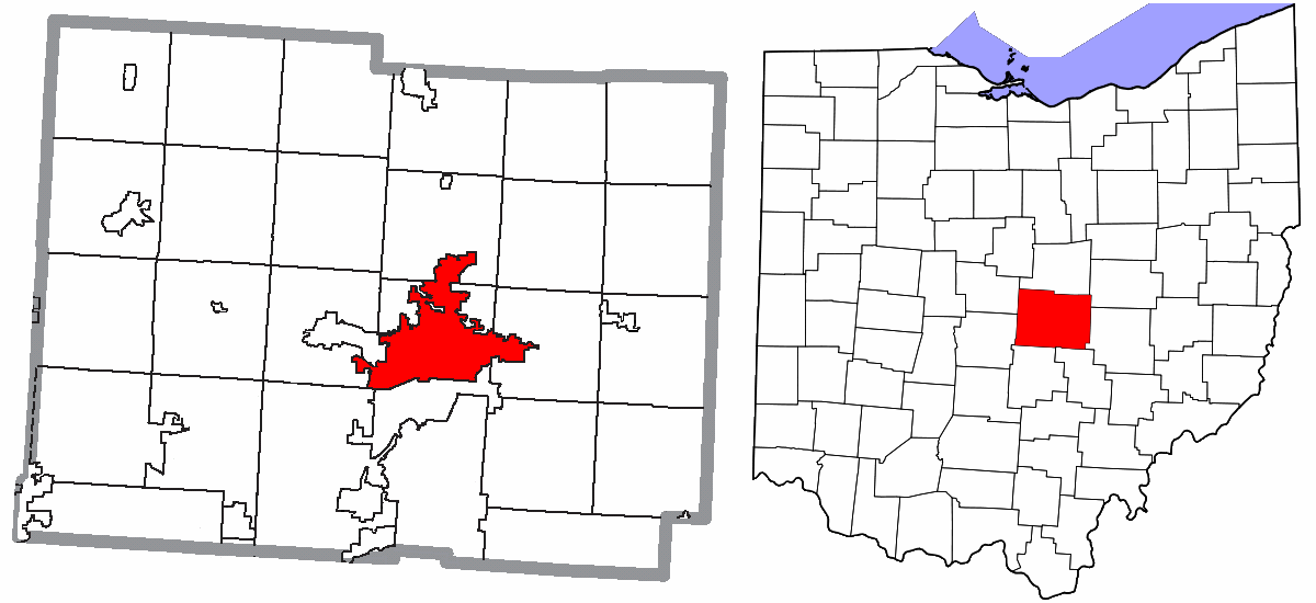 Map highlighting City of Newark, Licking County, Ohio, United States.